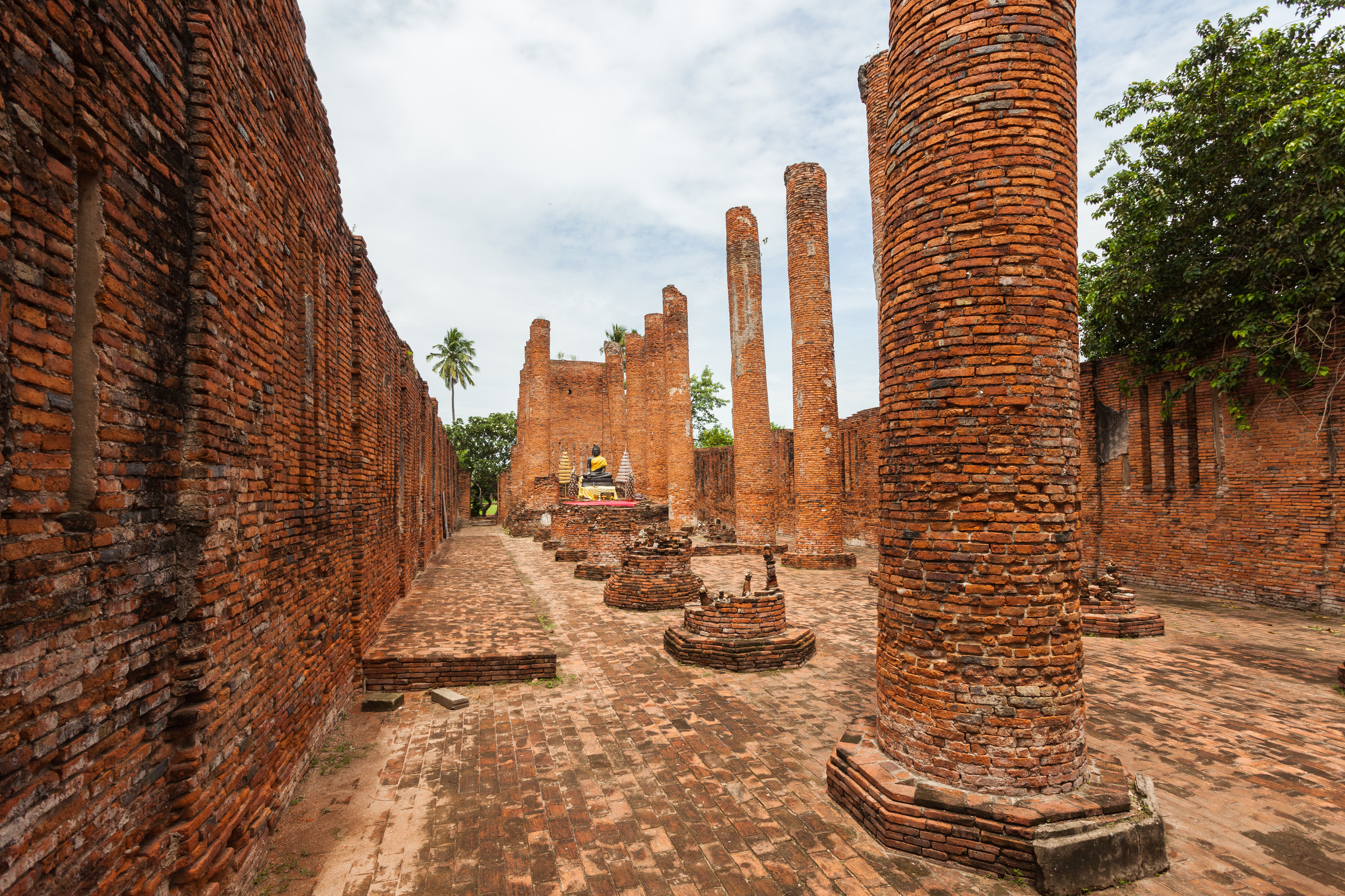 Thammikarat Temple, Ayutthaya, Thailand